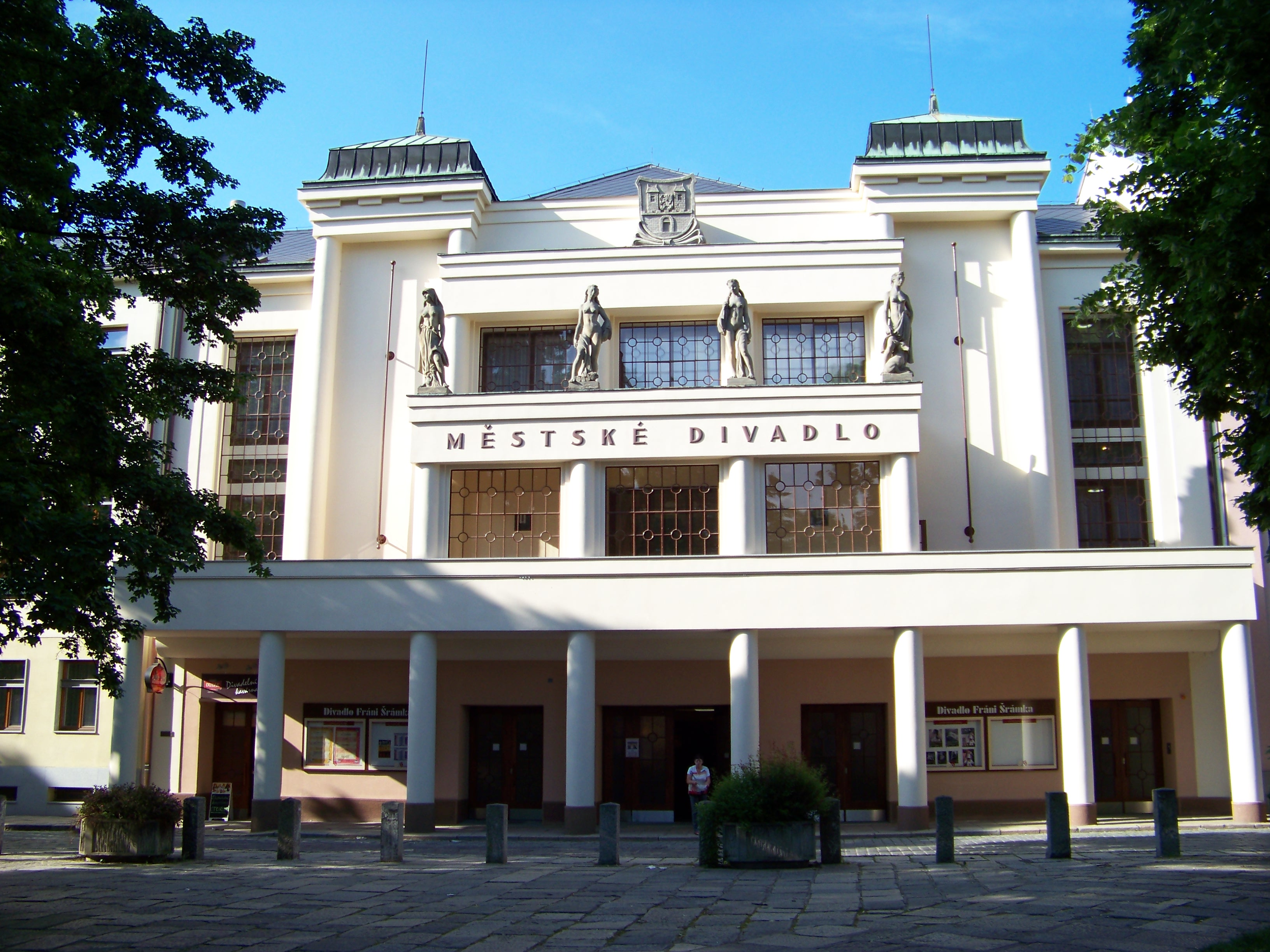 Písek-Budějovické Předměstí, Písek District, South Bohemian Region, the Czech Republic. Tylova 69/8, city theatre of Fráňa Šrámek.